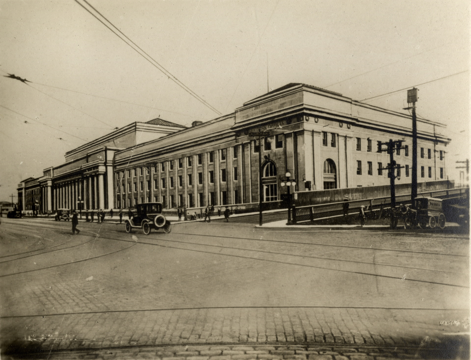 Constructed between 1914 and 1920, this is Toronto's third Union Station, and is the one still in use today. You can see a picture of the second station here. It was opened to the public on August 6, 1927, by Edward, Duke of Windsor (1894-1972). See picture of that event here. Creator: Valentine and Sons United Publishing Company Date: 1925 circa Identifier: 986-2-9 Cab or PICTURES-R-2384 Format: Picture Rights: Public domain Courtesy: Toronto Public Library Digital Archive More information: (view details and larger image) You can order order a print or high-resolution copy.